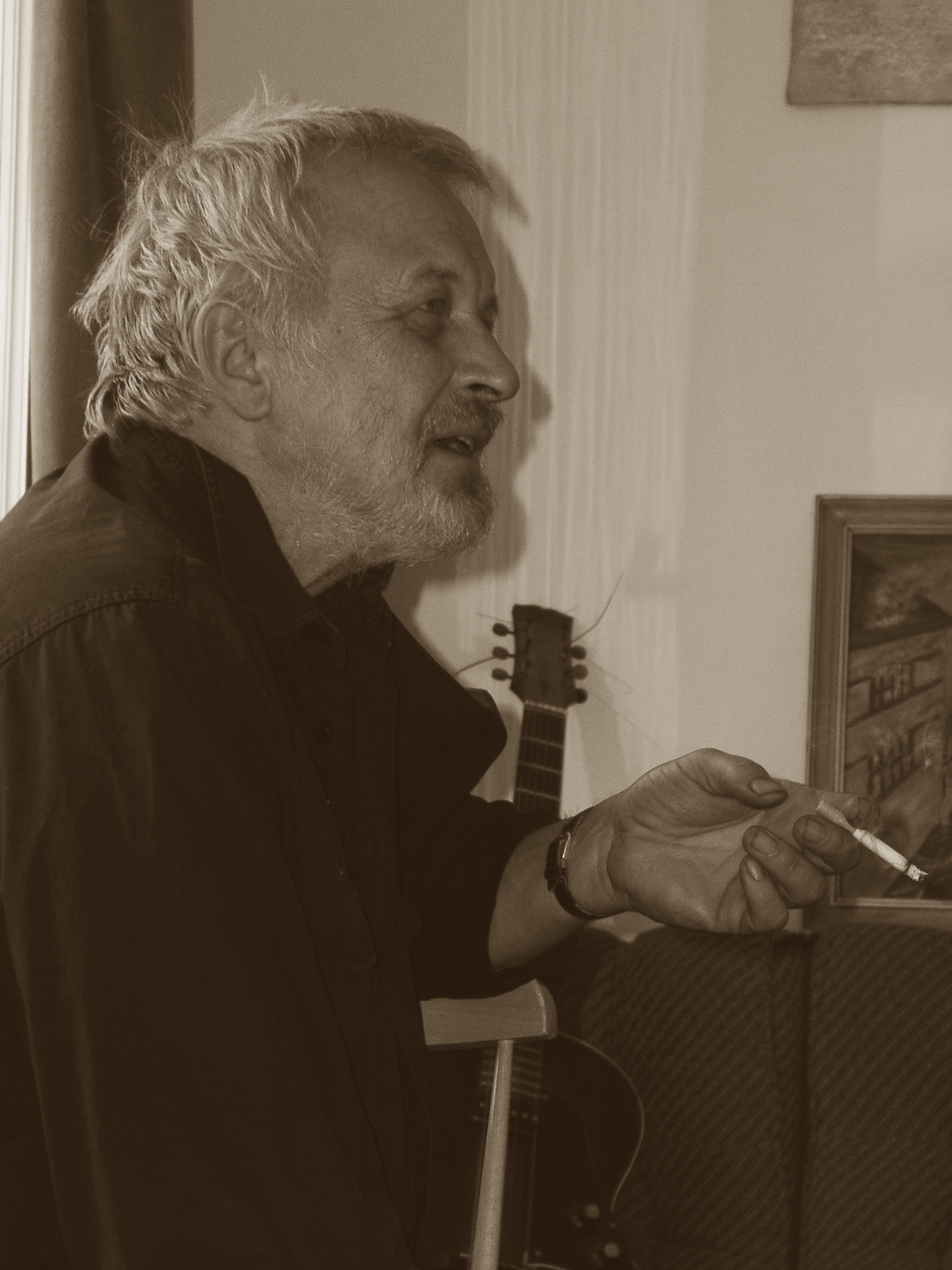 Portrait of Ivan Hostaša, a Czech ceramist, guitarist, poet, storyteller and the founder of the George Ohr’s Ceramic Society, taken during the opening of the George Ohr atelier in 2004 in Pilsen, Czech Republic.